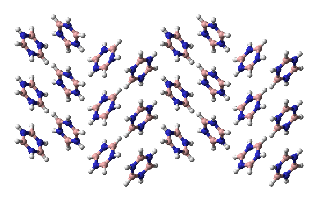 Ball-and-stick model of part of the crystal structure of borazine, B3N3H6. X-ray crystallographic data from Chem. Ber. (1994) 127, 1887-1889.